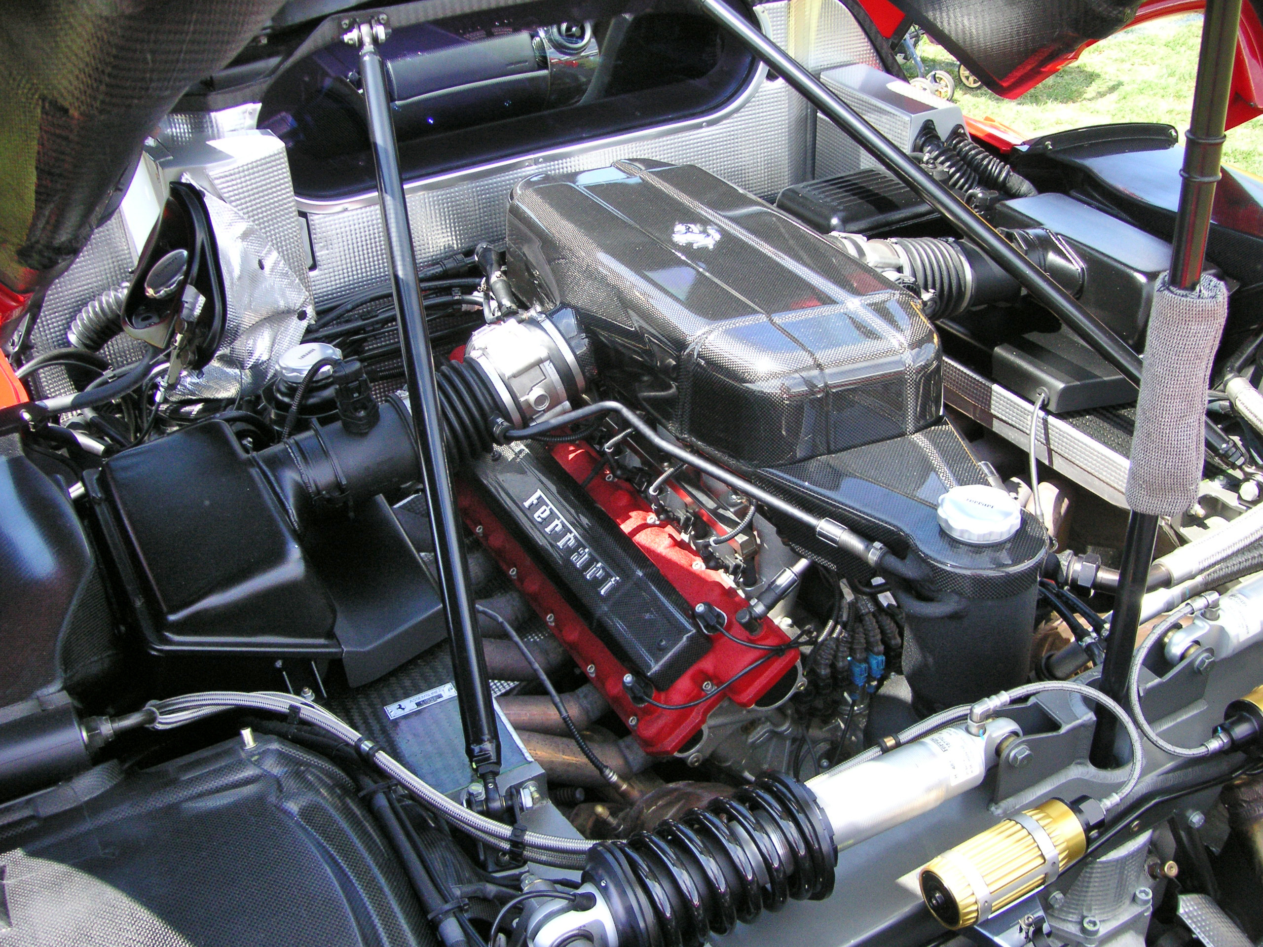 The engine compartment of a Ferrari Enzo. Taken at the 29th annual Palo Alto Concours d'Elegance at Stanford.